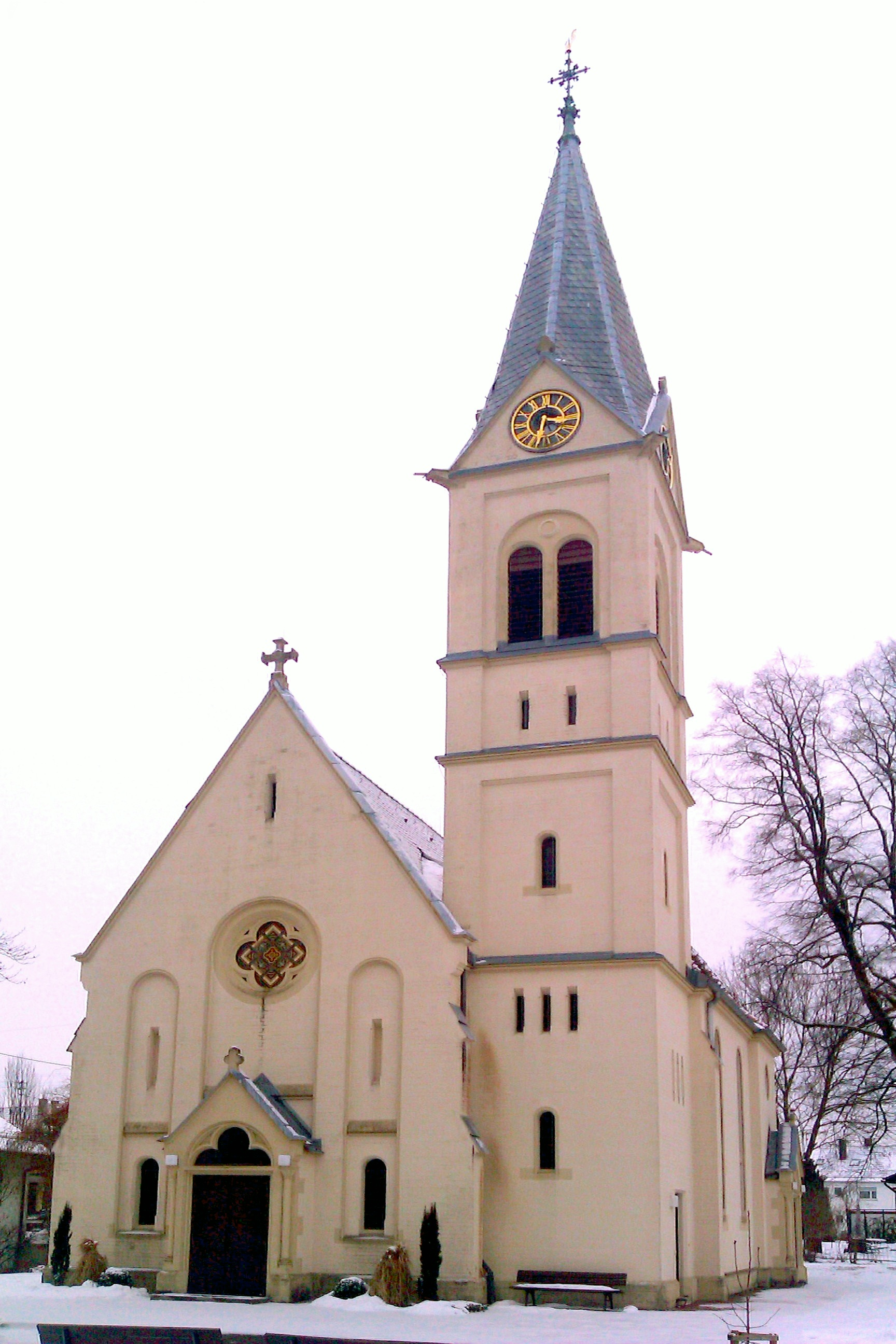 Protestant church in Großdeinbach, Schwäbisch Gmünd, architect: Heinrich Dolmetsch (1846–1908)